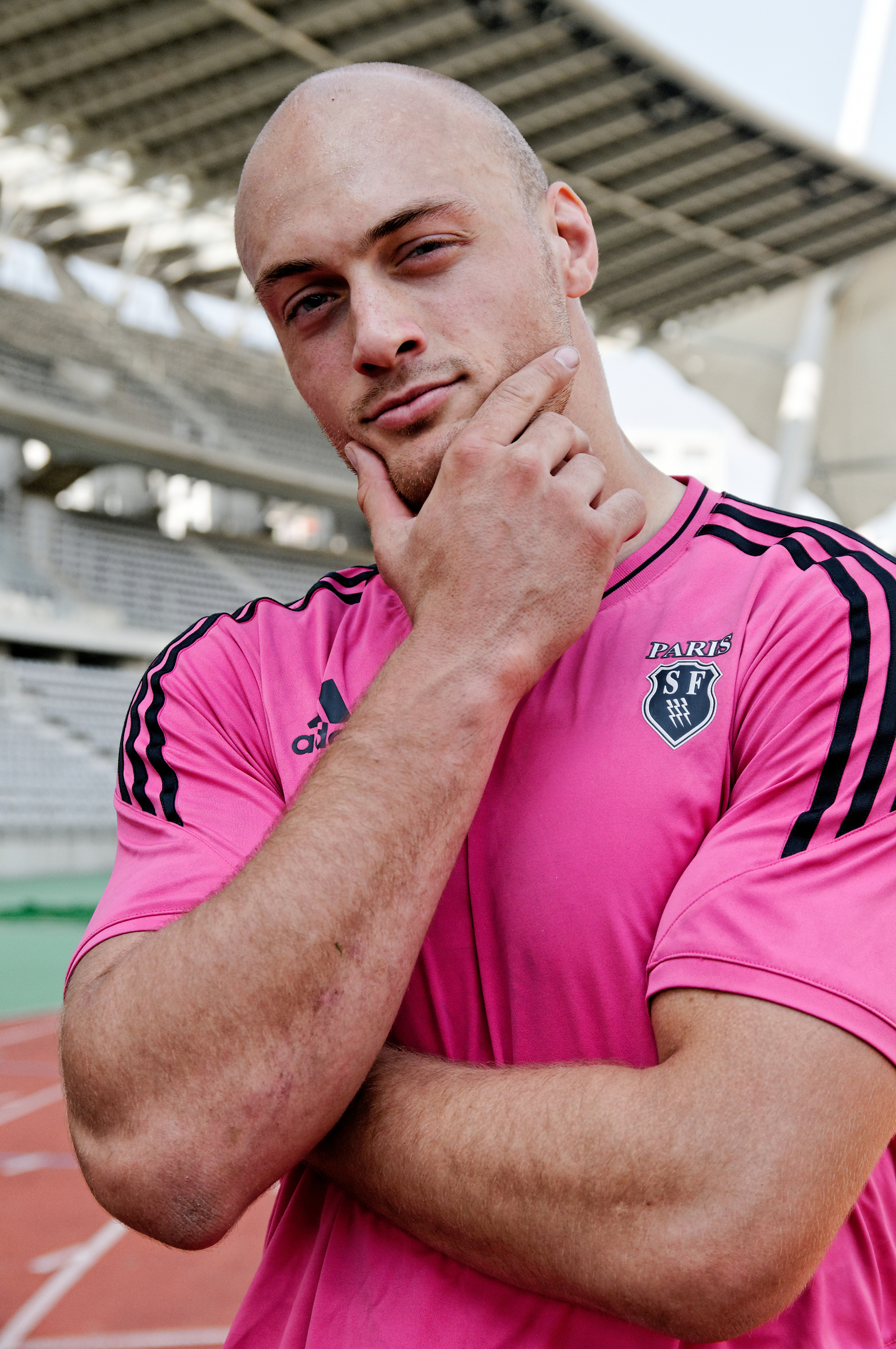 Rugby union player Scott LaValla during the Stade Français training session held at Stade Charléty, Paris on 3 April 2012.